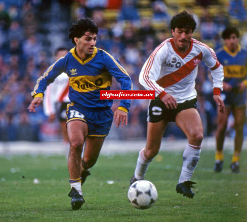 Diego Latorre playing v River Plate, followed by Daniel Passarella